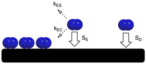 Illustration of the Kisliuk 'precursor state' theory